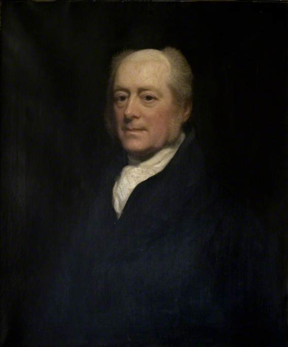 Portrait of Reverend Dr Samuel Wilson Warneford (1763–1855)